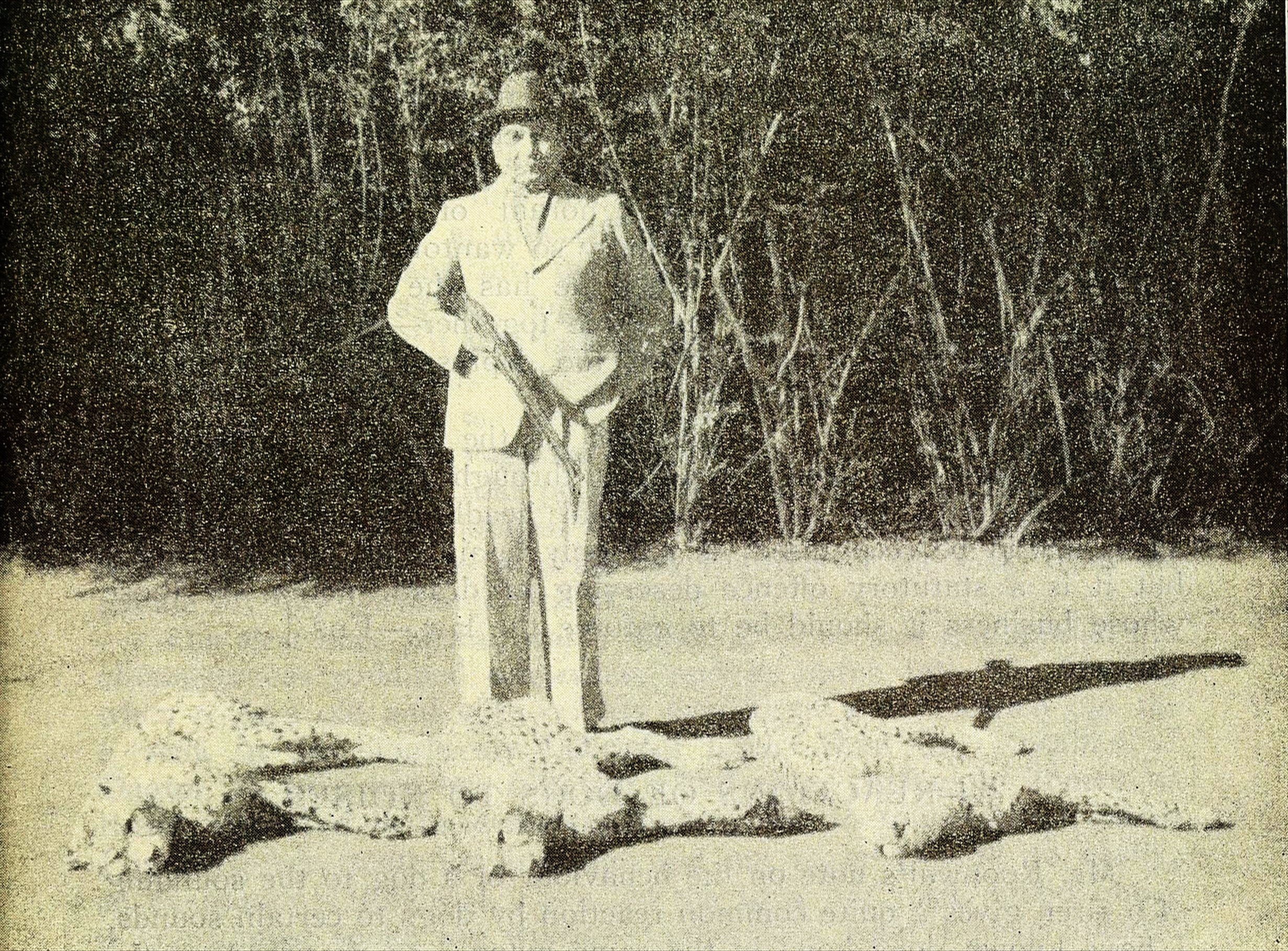 Photo of the last three Asiatic cheetahs (on record) shot dead in Surguja district, Madhya Pradesh, Central India along with the Maharajah Ramanuj Pratap Singh Deo who reportedly shot them down at night as reported in the Journal of Bombay Natural History Society by his private secretary. The Asiatic Cheetah has never been recorded in India after this.